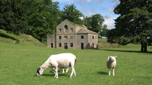 Chatsworth Park Estate — Corn Mill ruin